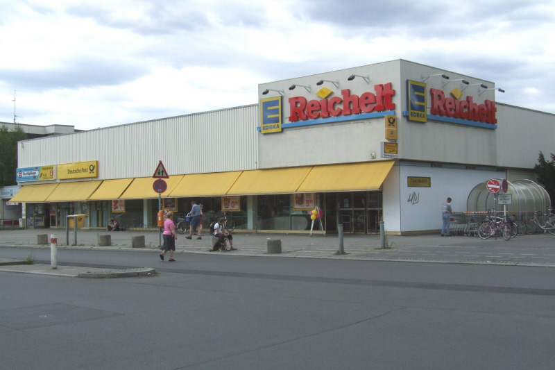 Typical Reichelt shop